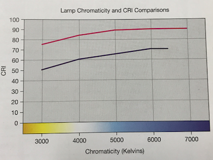 Lamp chromaticity and CRI comparison